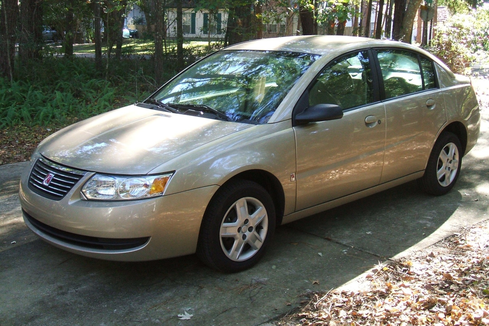 2006 Saturn Ion 2